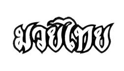 Muaythai Logo2